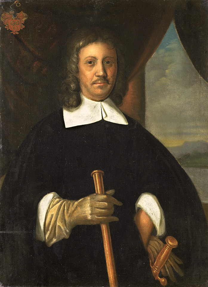 Portrait of Jan van Riebeeck. Pendant of File:Maria Quevellerius or Maria Scipio.jpg.